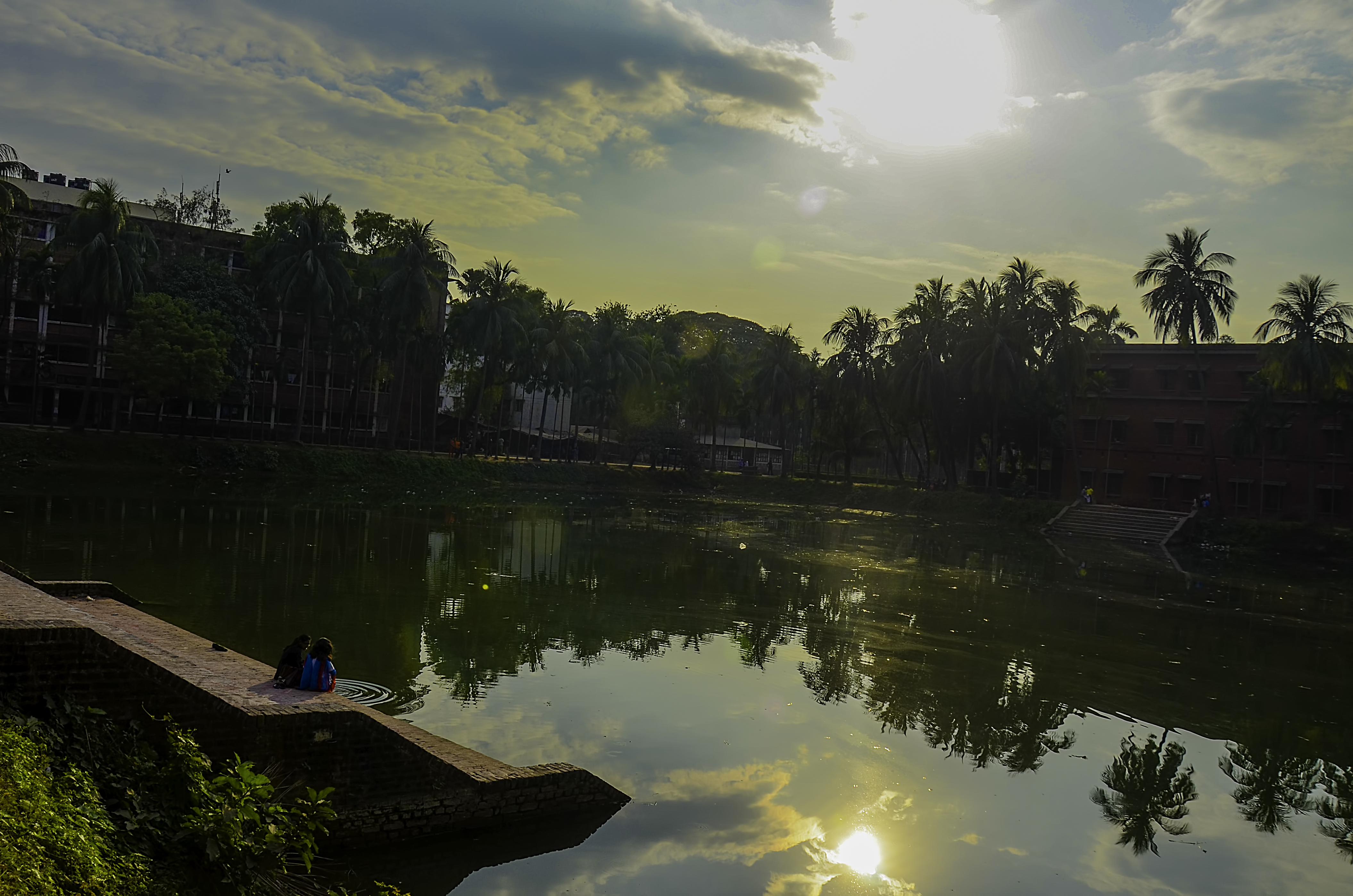 Bank of pond at Shahidullah Hall, University of Dhaka. A historical site in the history of student movements, which have taken place in DU. Such as, Language movement.